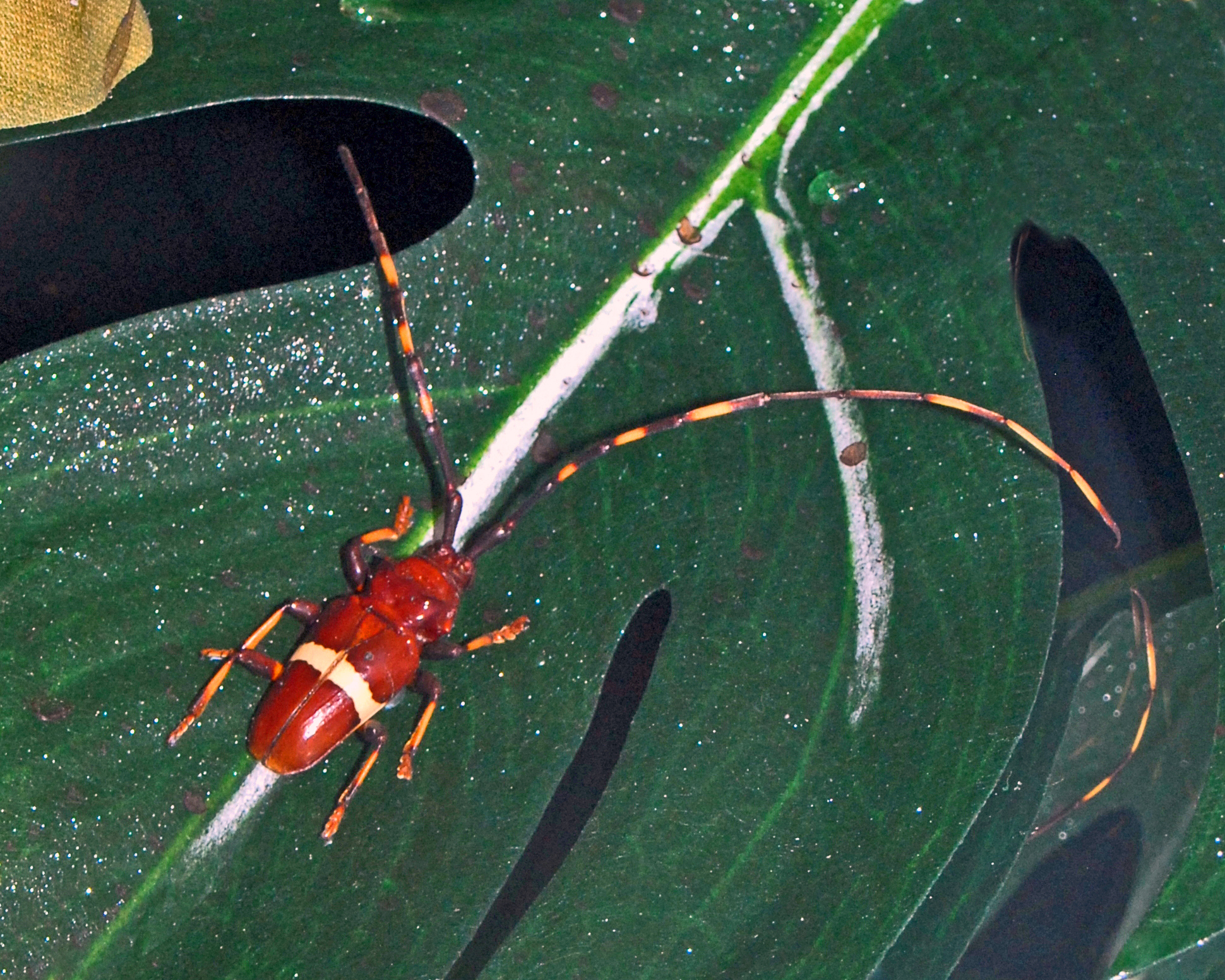 Trachyderes succinctus. On display at the Museo Civico di Storia Naturale di Milano